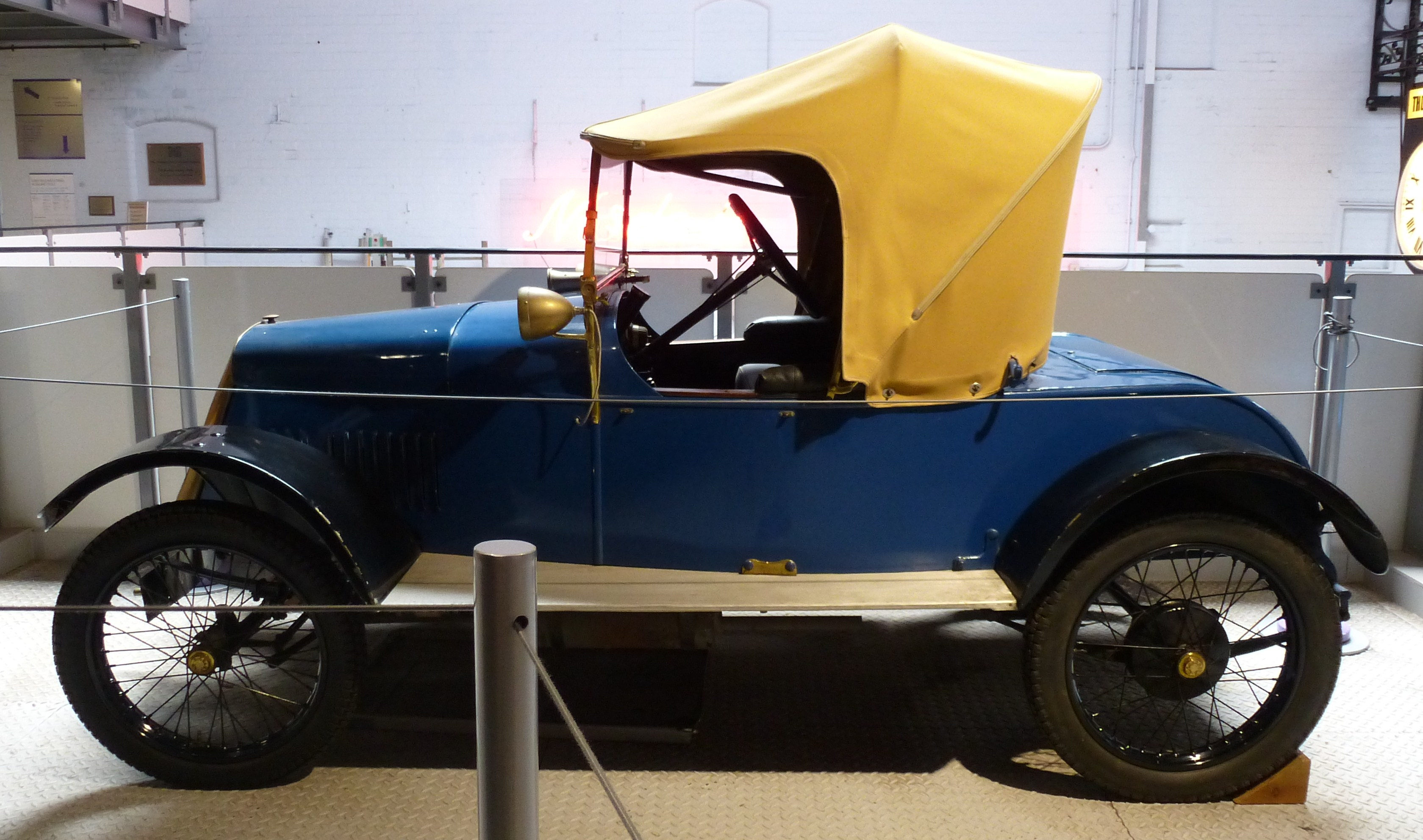 Richardson 10 HP 1921